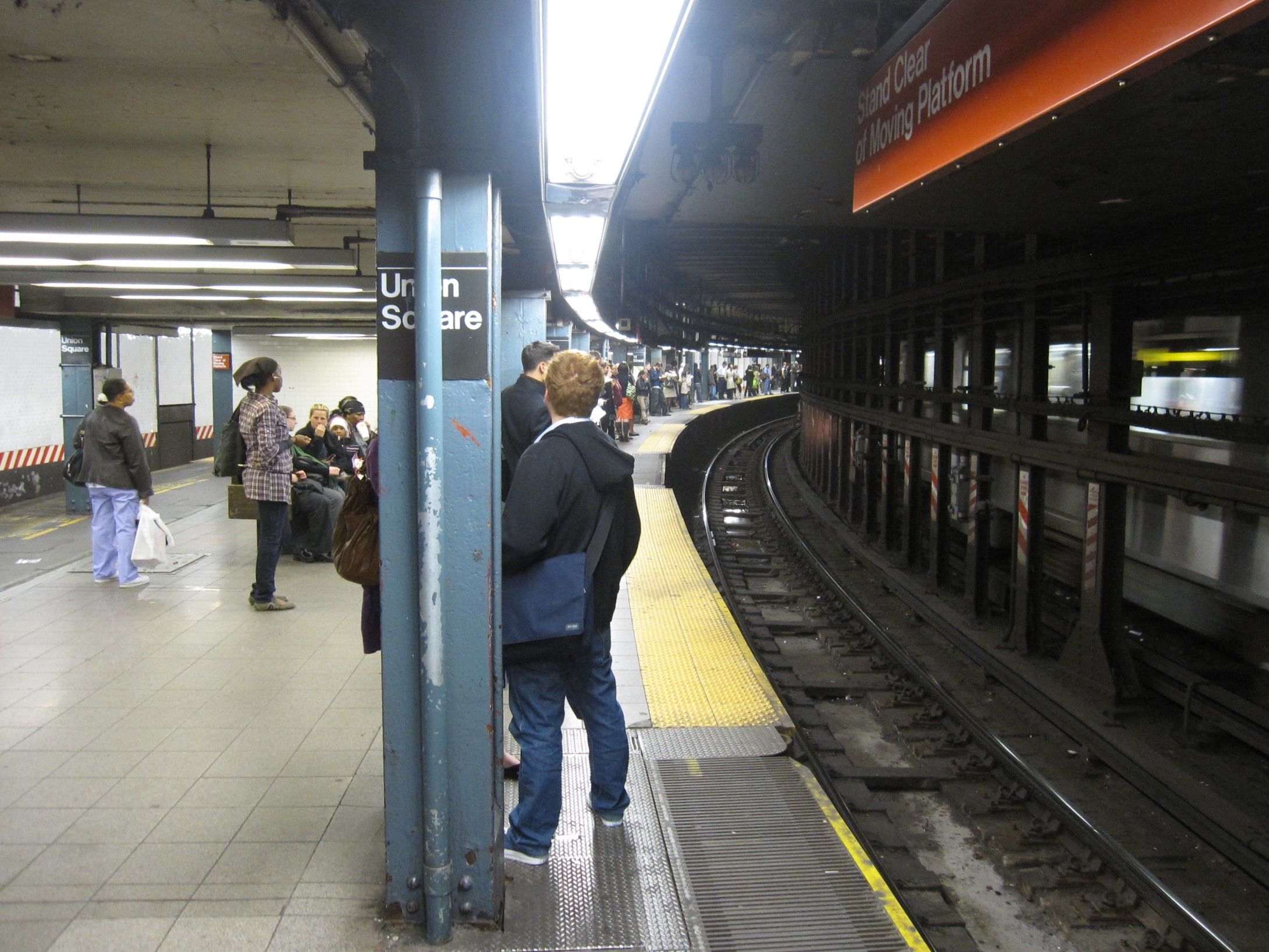 14th Street – Union Square (IRT Lexington Avenue Line)